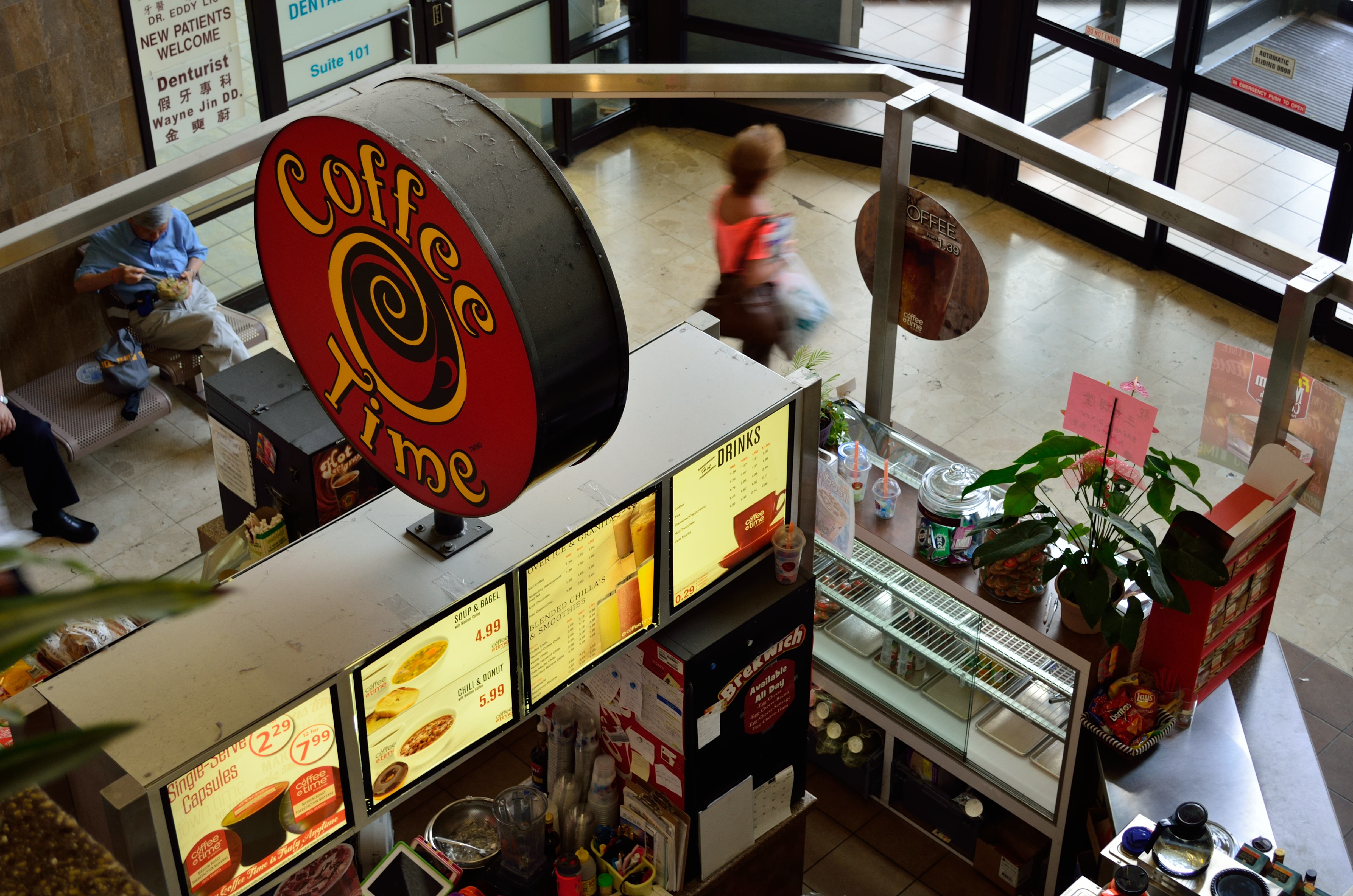 Coffee Time at 4040 Finch Ave East, Toronto